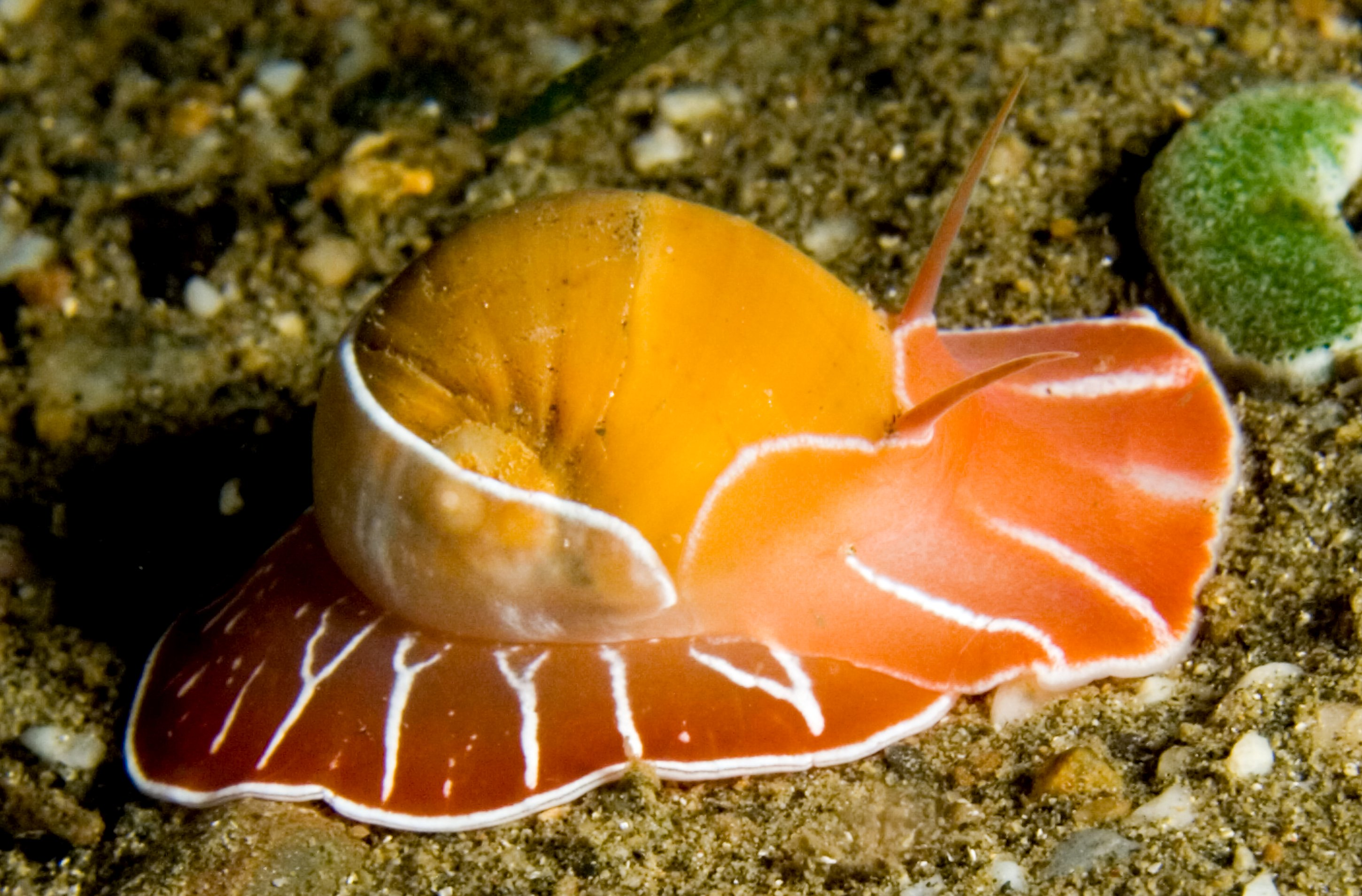 Crop of file in filename